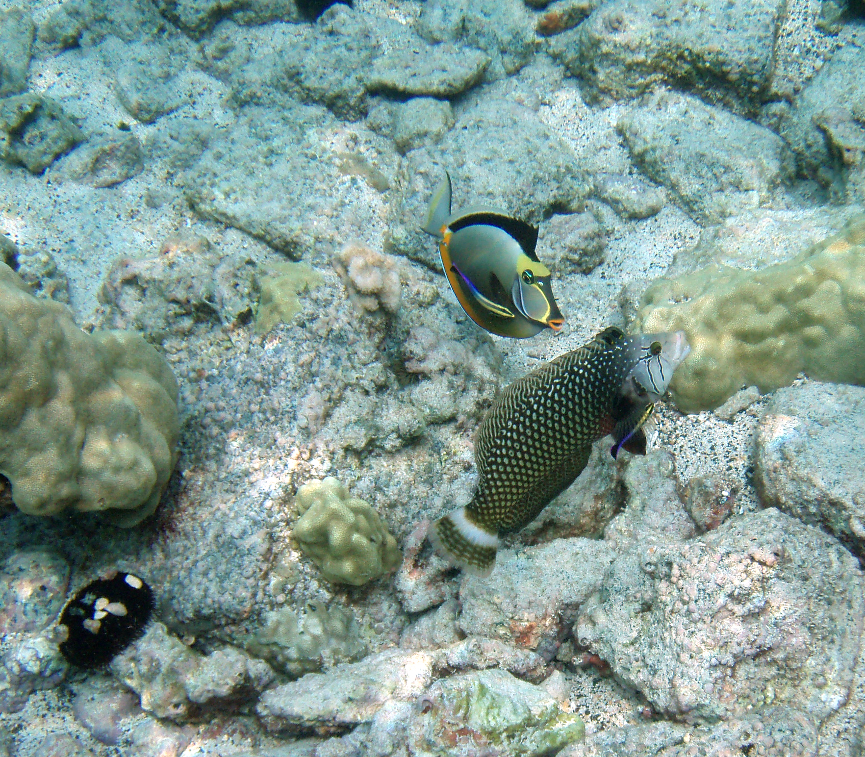 Naso lituratus Novaculichthys taeniourus are being cleaned by Labroides phthirophagus at cleaning station in Kona,Hawaii